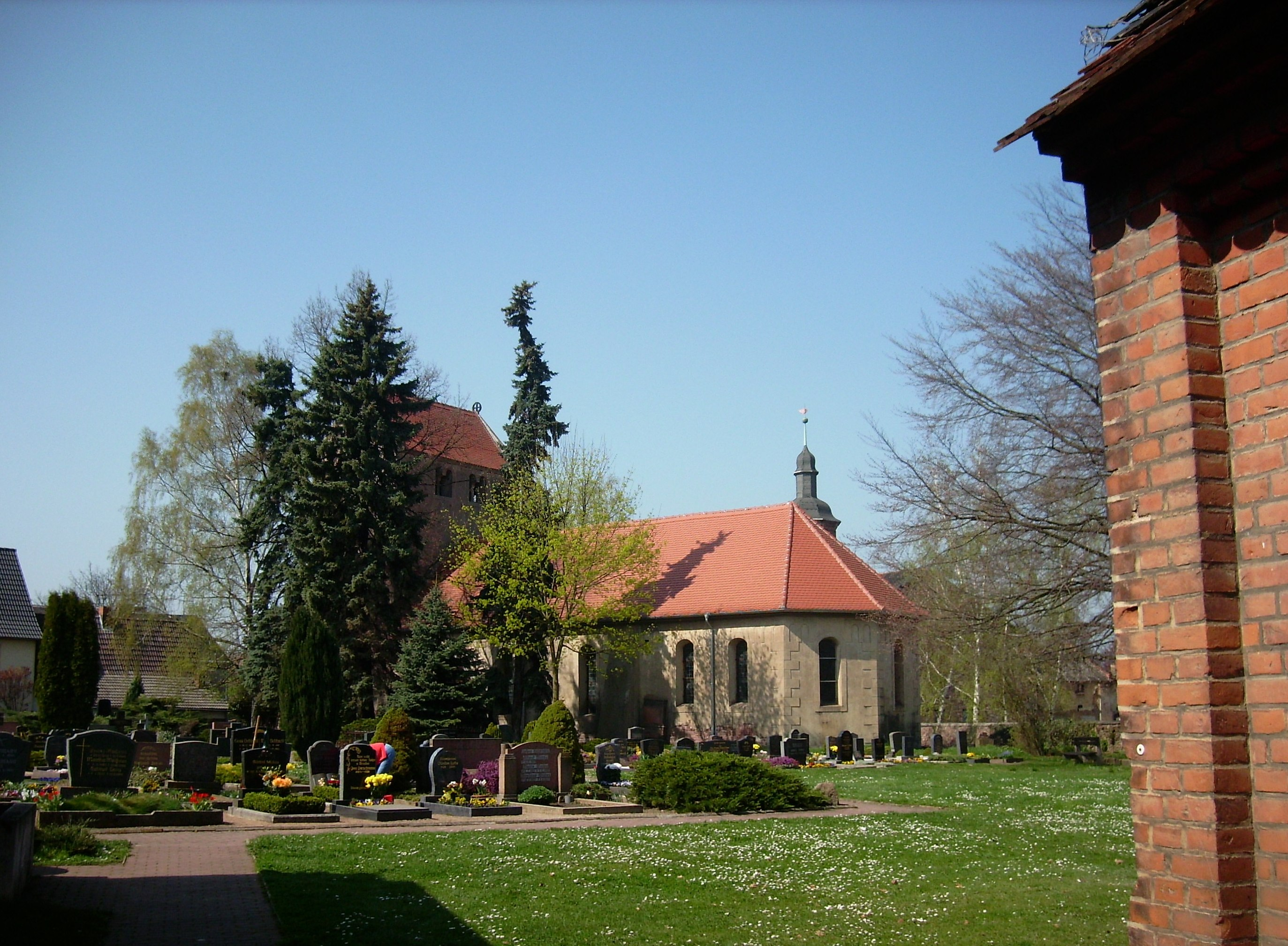 St. John the Baptist Church in Domnitz (Wettin-Löbejün, district of Saalekreis, Saxony-Anhalt)